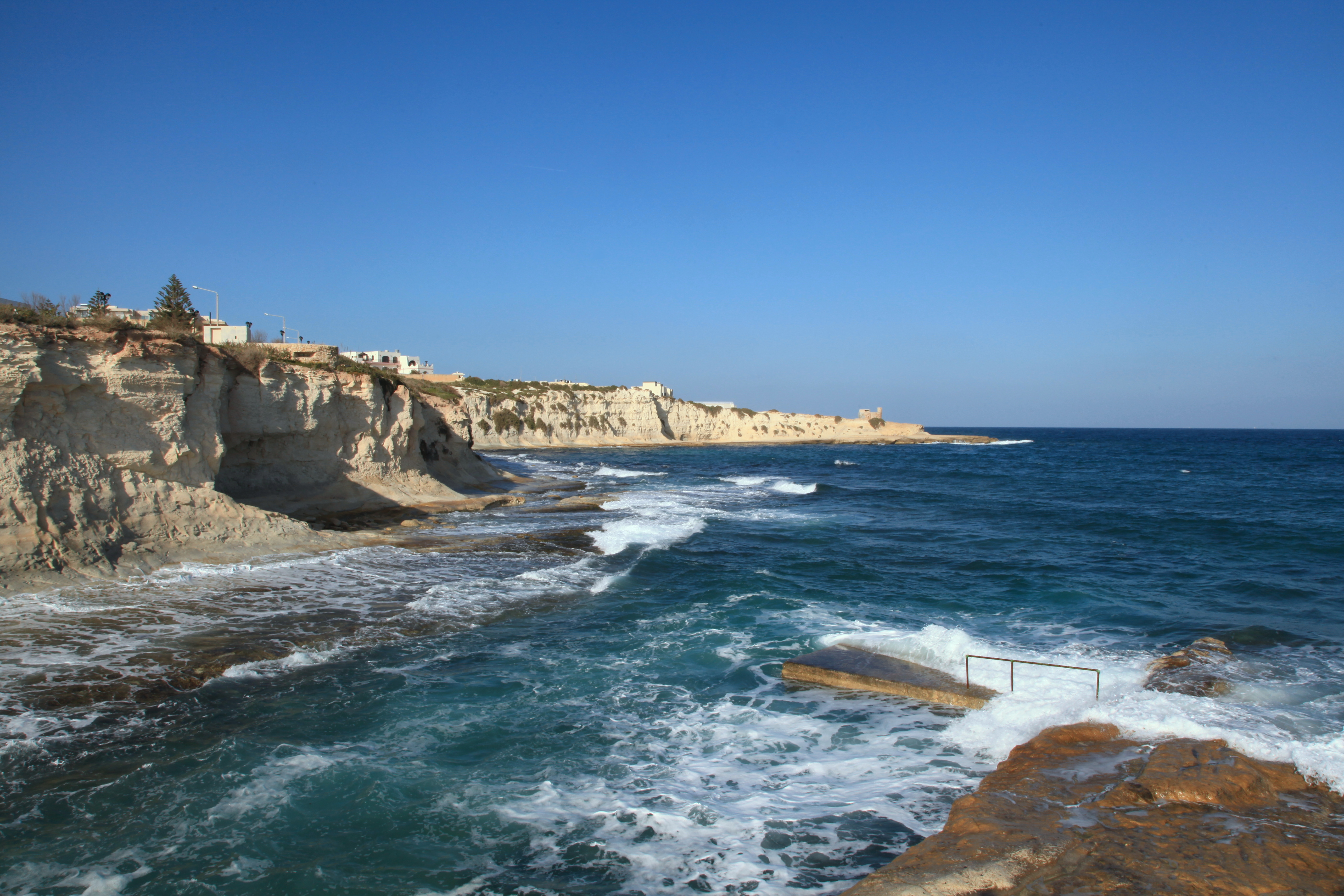 View from Ġnien il-Bajja ta' San Tumas at Triq il-Qalet to the St. Thomas Bay in Marsaskala, Malta